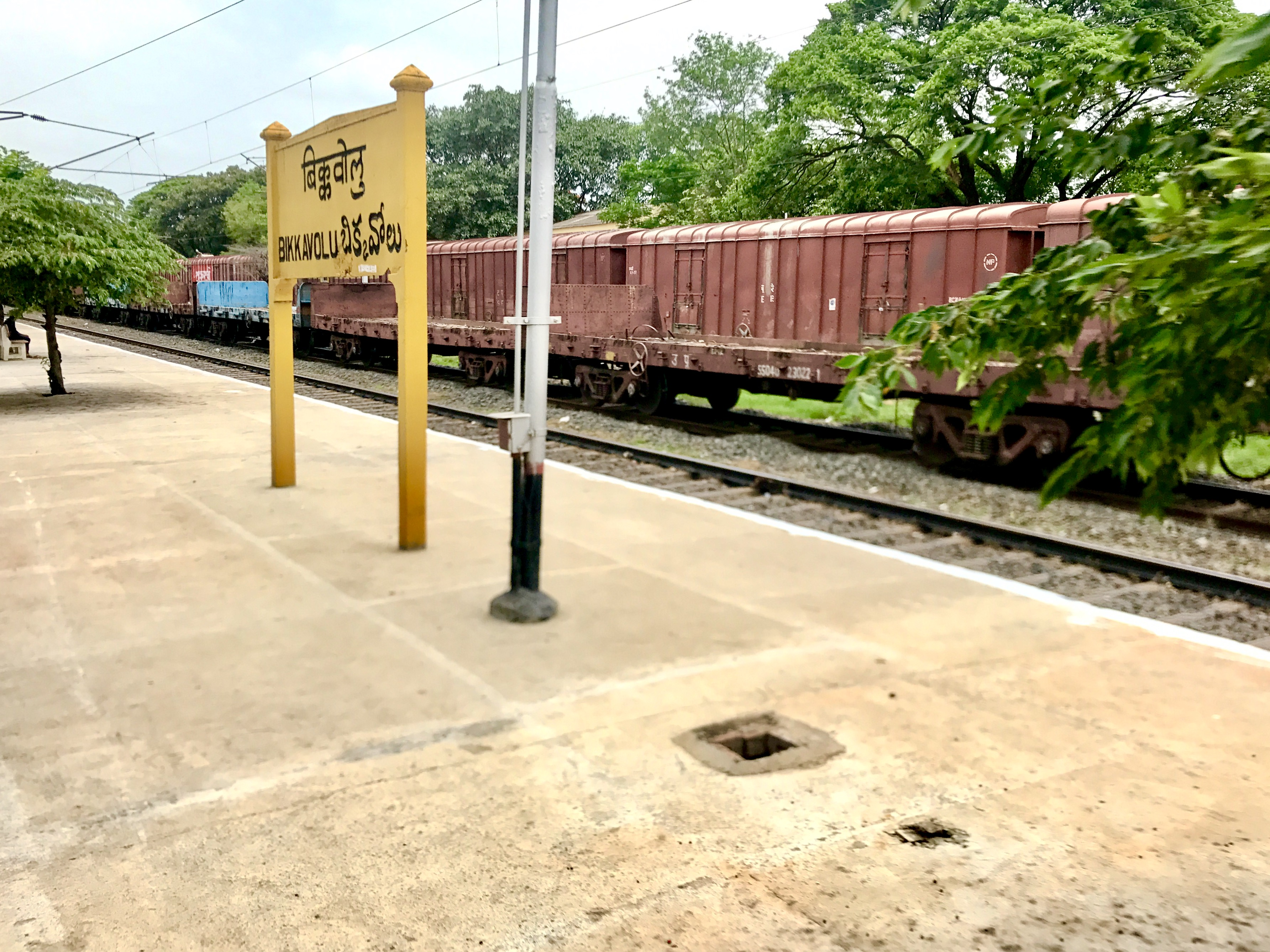 Bikkavolu railway station board